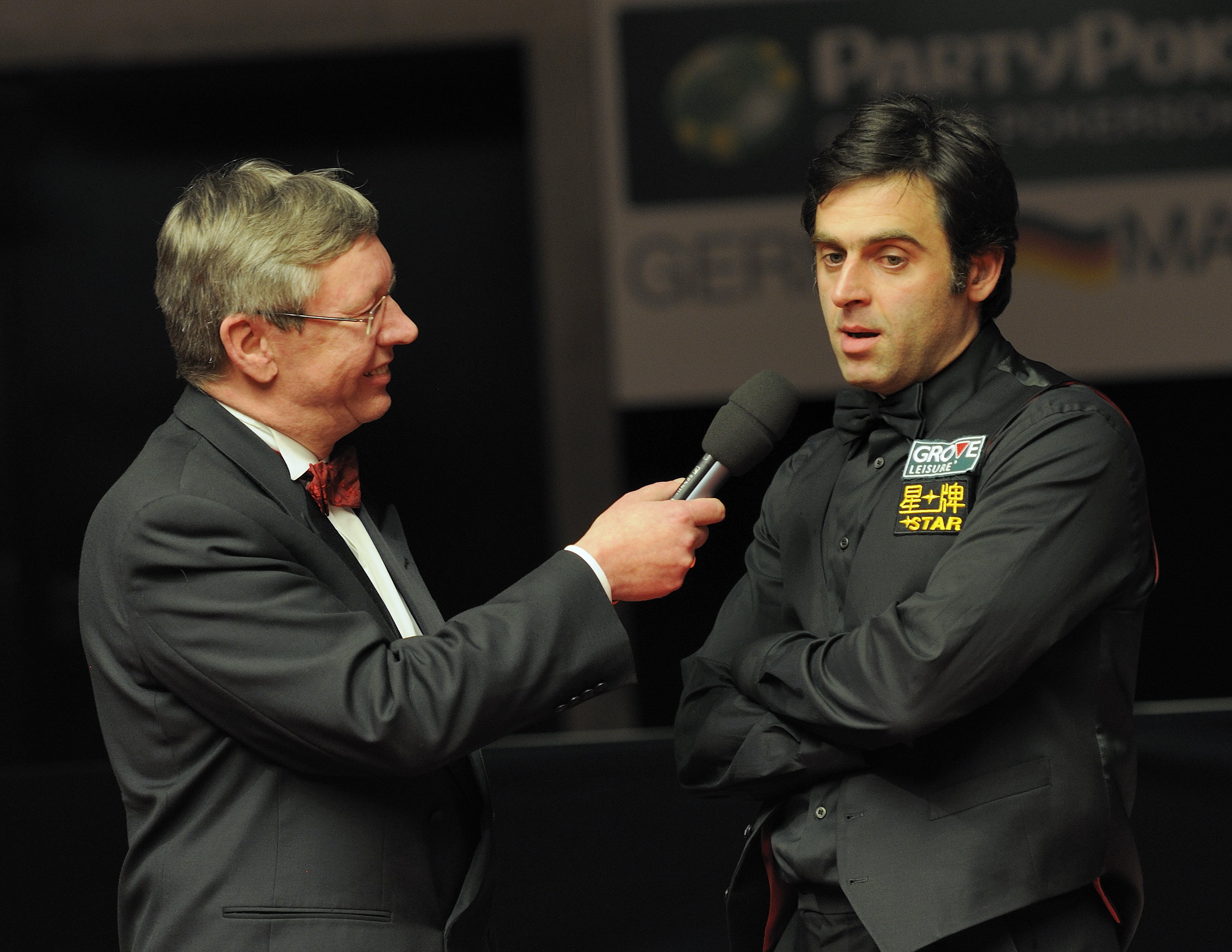 Picture taken in Berlin during the Snooker German Masters in 2012. Rolf Kalb and Ronnie O’Sullivan.